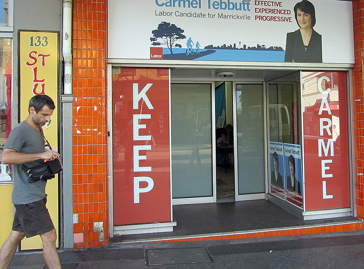 Colour photograph of man in front of Labor office. Carmel Tebbutt is the sitting Labor member but there is an elephant in the room - left over from when this shop was a Buddhist op shop.